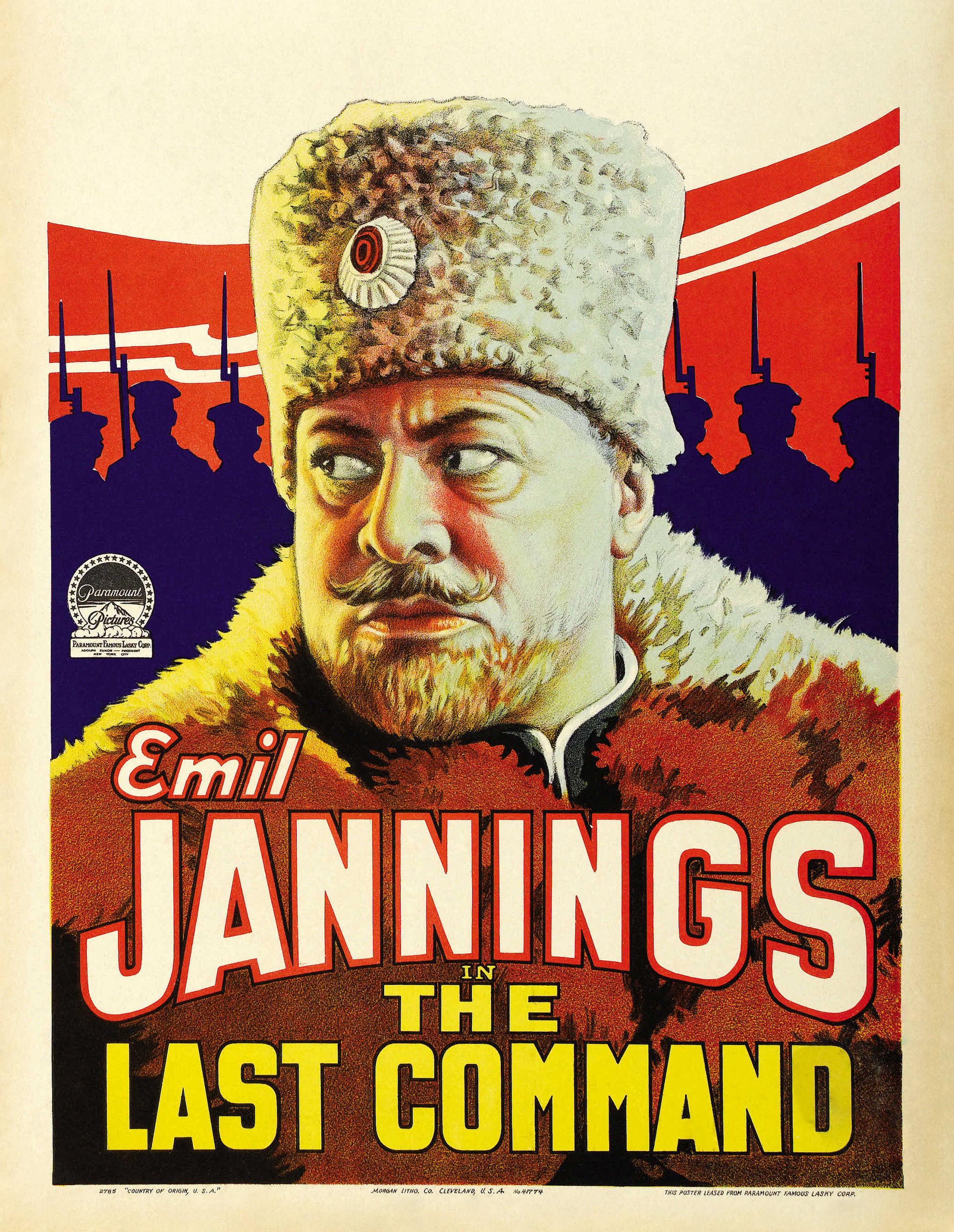 Poster for the 1928 film The Last Command